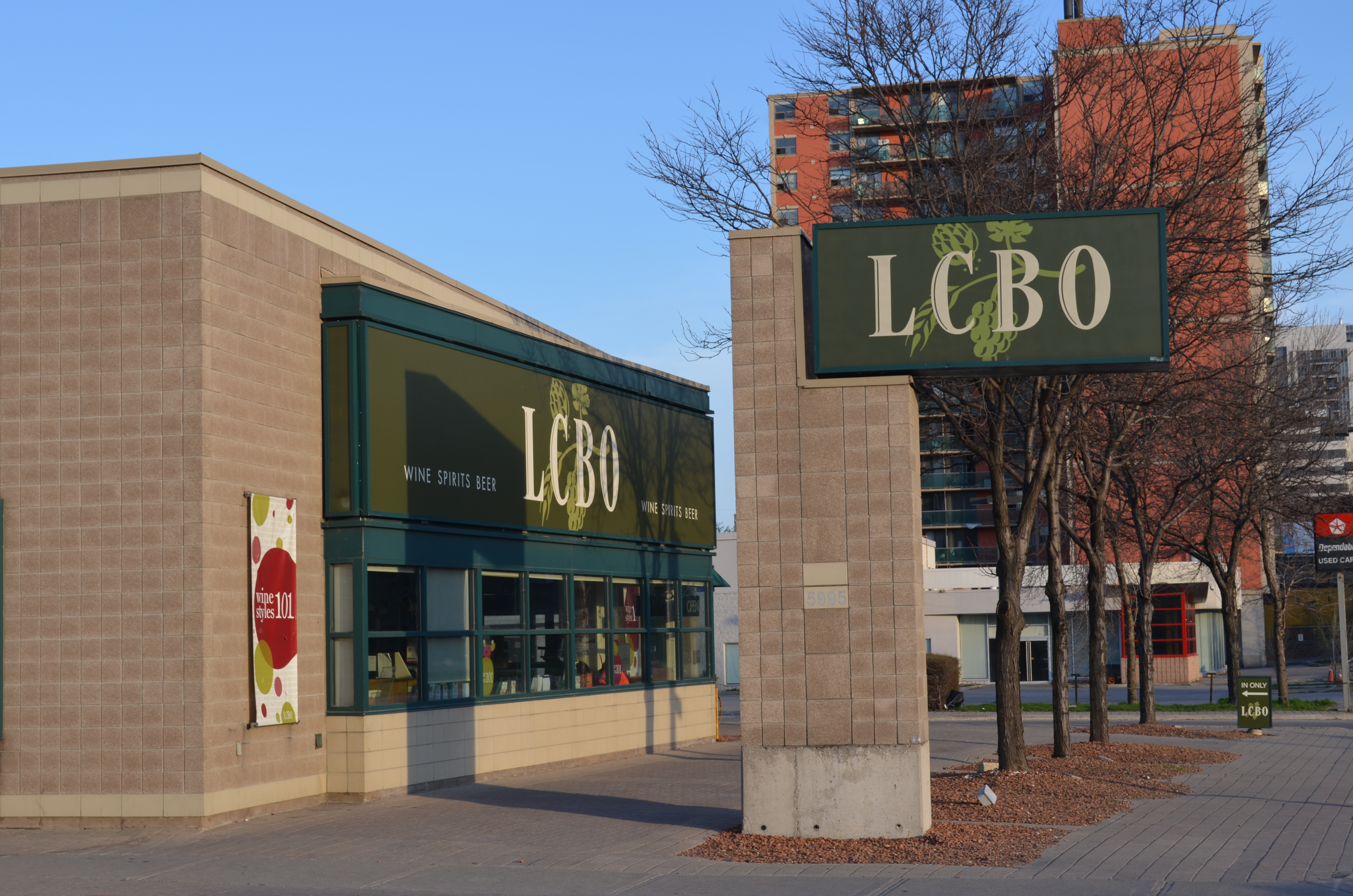 LCBO, 5995 Yonge Street